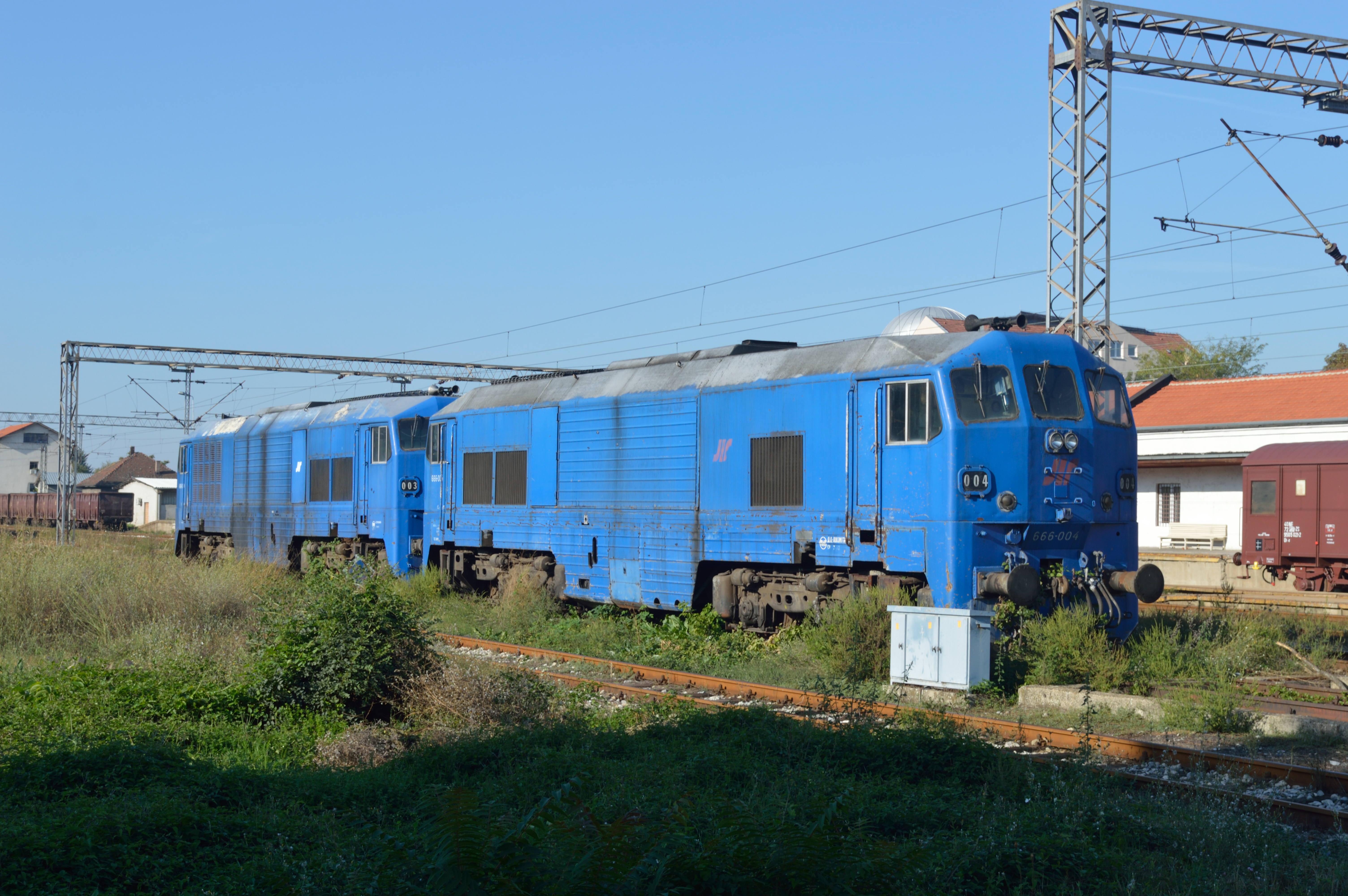 Three out of the four of this class were stabled here at Požarevac on 26 September 2013. The class is actually stored out of use and over the years have been used for freight and the occasional passenger train. Built in 1978 to haul the late Yugoslavian president Tito's "Blue Train" , hence the same colour of the loco. These locos were rolled off the production line in 1978 at General Motors Electro-Motive Division (EMD) in London, Ontario, Canada. The model is JT22CW-2 and mechanically identical to the classes 071 and 111 delivered to Ireland from 1976. This view shows 666.004 and behind, 666.003. For the record the other class 666 noted at Požarevac was 666.001 which was approximately 400 metres away.